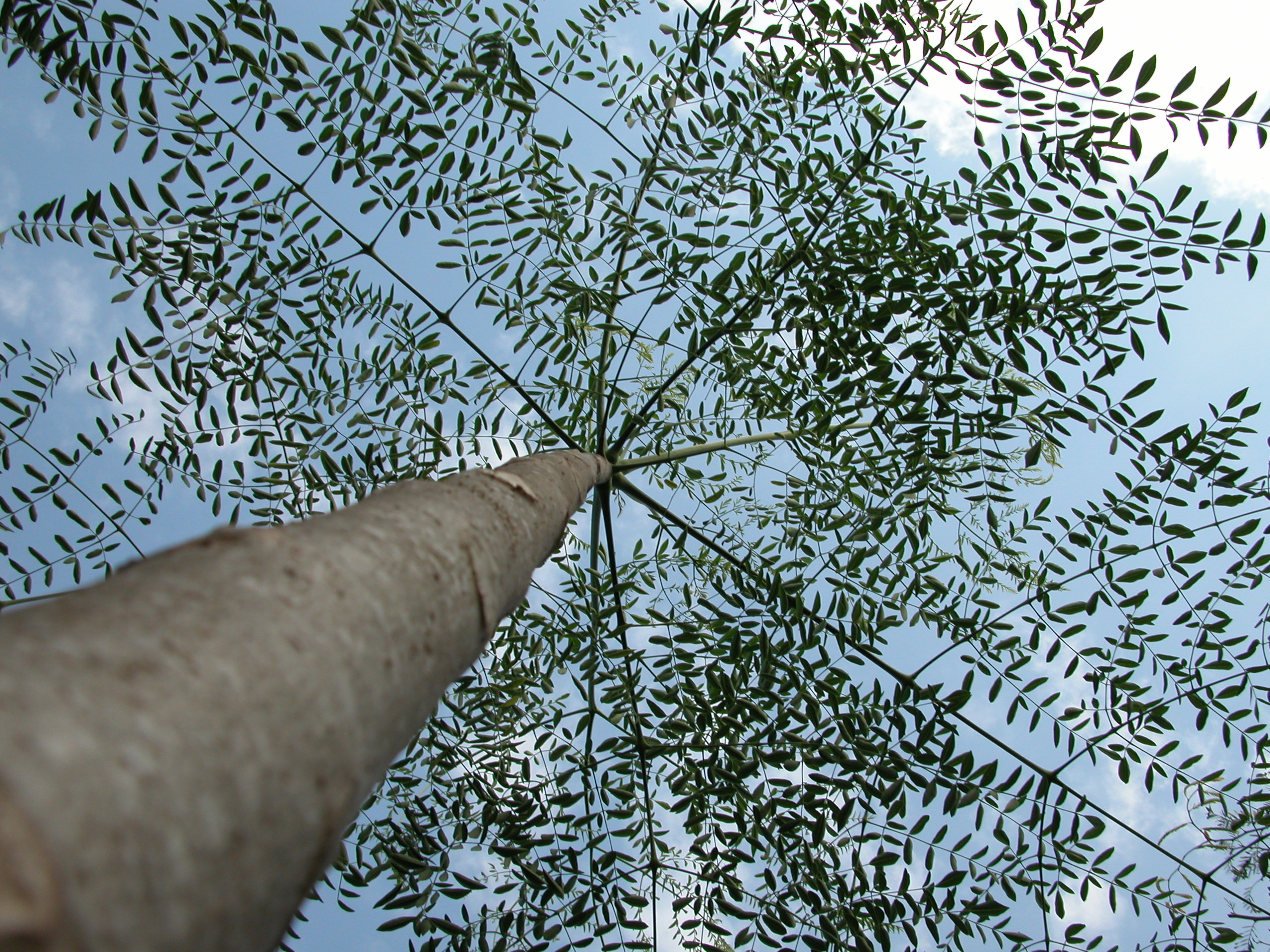 Malagasy Moringa (Moringa drouhardii / Moringaceae) growing in the Ghosh Grove, Rockledge, Florida, from a seed from Madagascar.